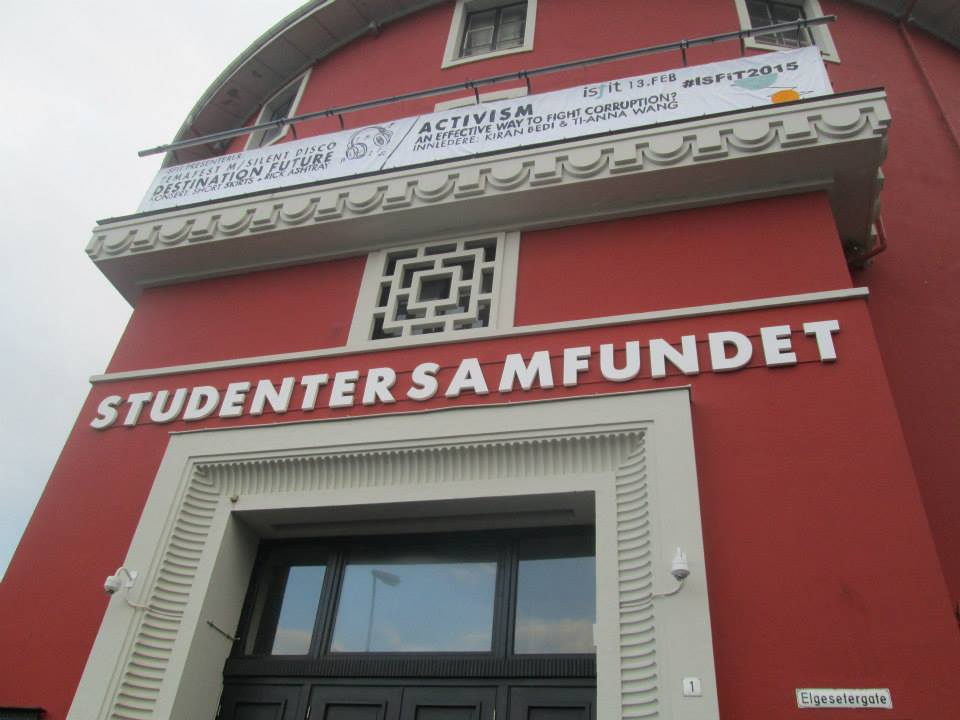 A close up of the Student society referred to in norwegian as " StudentSamfundet"